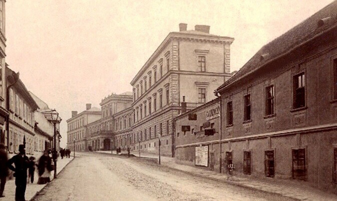 Pekařská street, Brno, Czech Republic